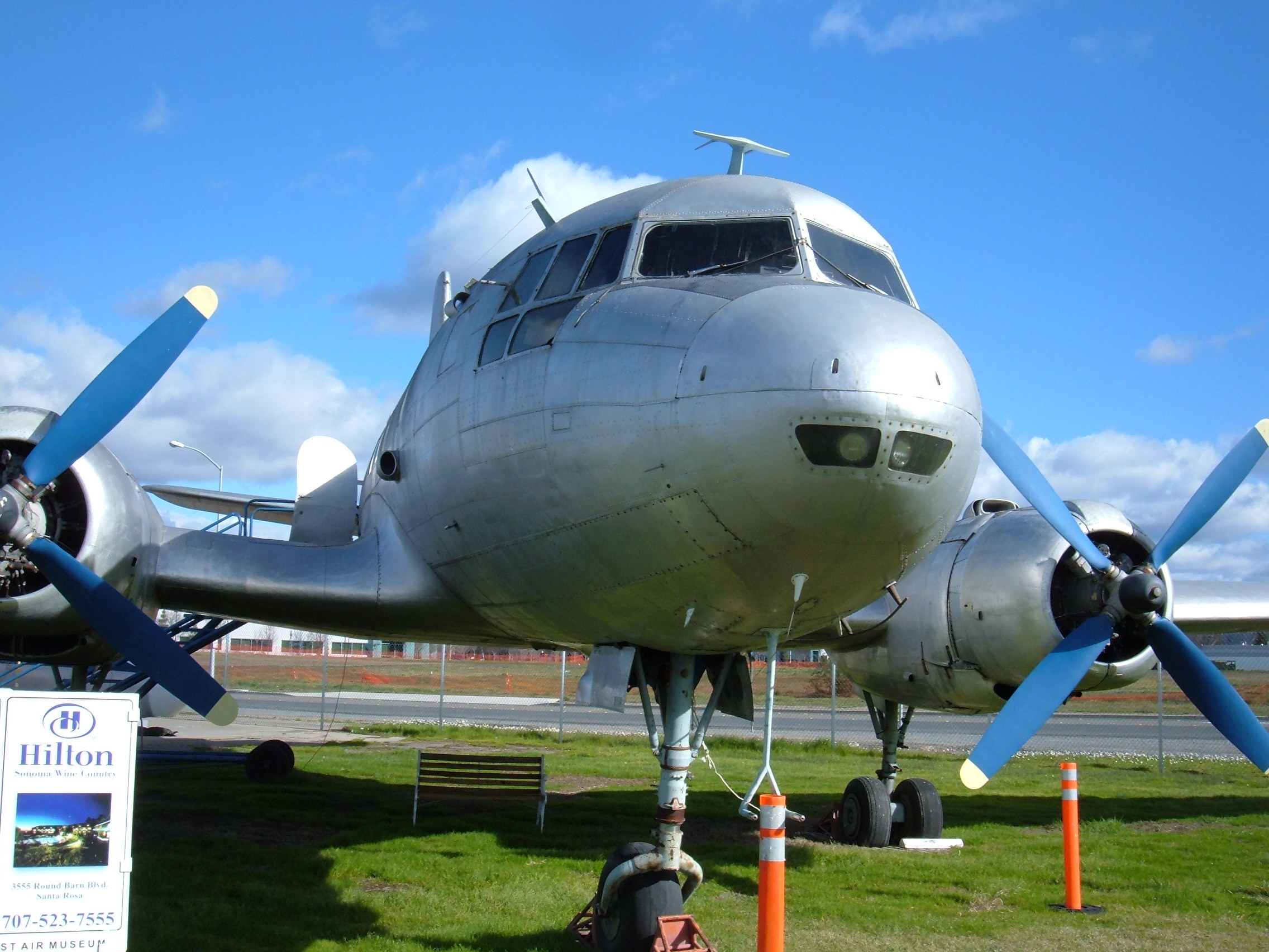 The front of an Ilyushin Il-14 "Crate" on display at the Pacific Coast Air Museum in Santa Rosa, California.